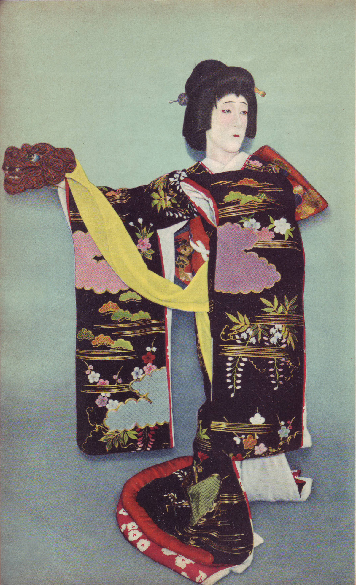 Nakamura Fukusuke VII (Nakamura Shikan VII) in Okosho Yayoi from "Kagami-Jishi". taken in 1955.